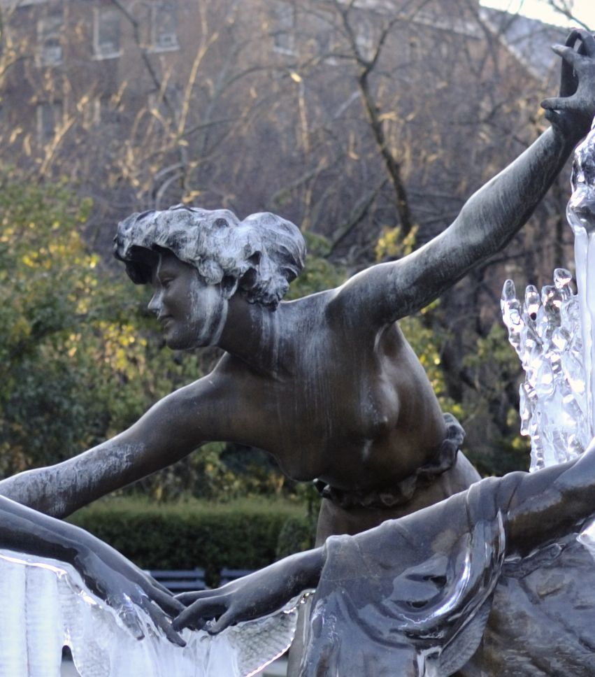 "Untermeyer fountain" aka "Three Dancing Maidens", by Walter Schott. Central Park, NYC